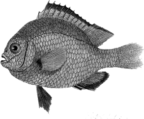 Illustration of Dascyllus marginatus (Rüppell, 1829)) in « Histoire Naturelle des Poissons » (1830).